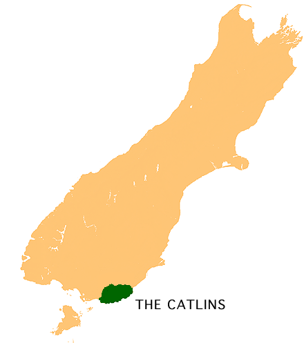 The Catlins.